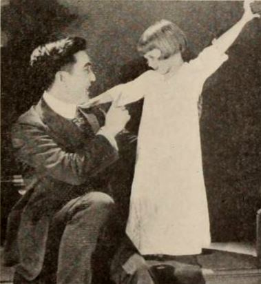 Still from the American drama film The Temple of Dusk (1918) with Sessue Hayakawa and child actress Mary Jane Irving, on page 31 of the October 12, 1918 Exhibitors Herald.